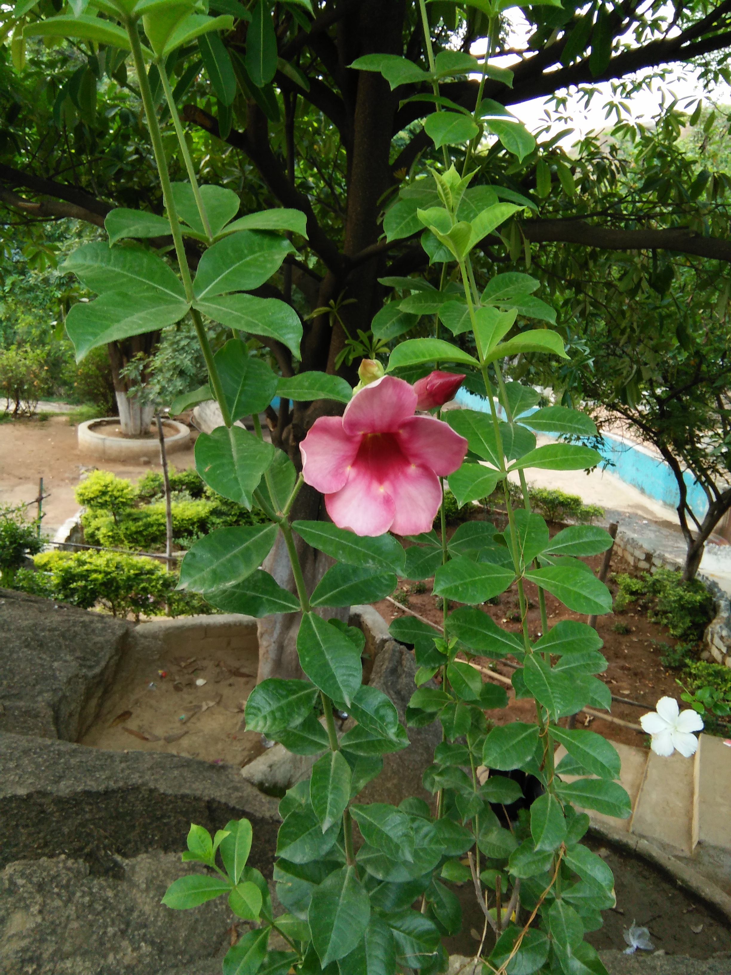 Seen in Jharkhand, india. leaves are in whorls of three and flower buds appear screw like before they open